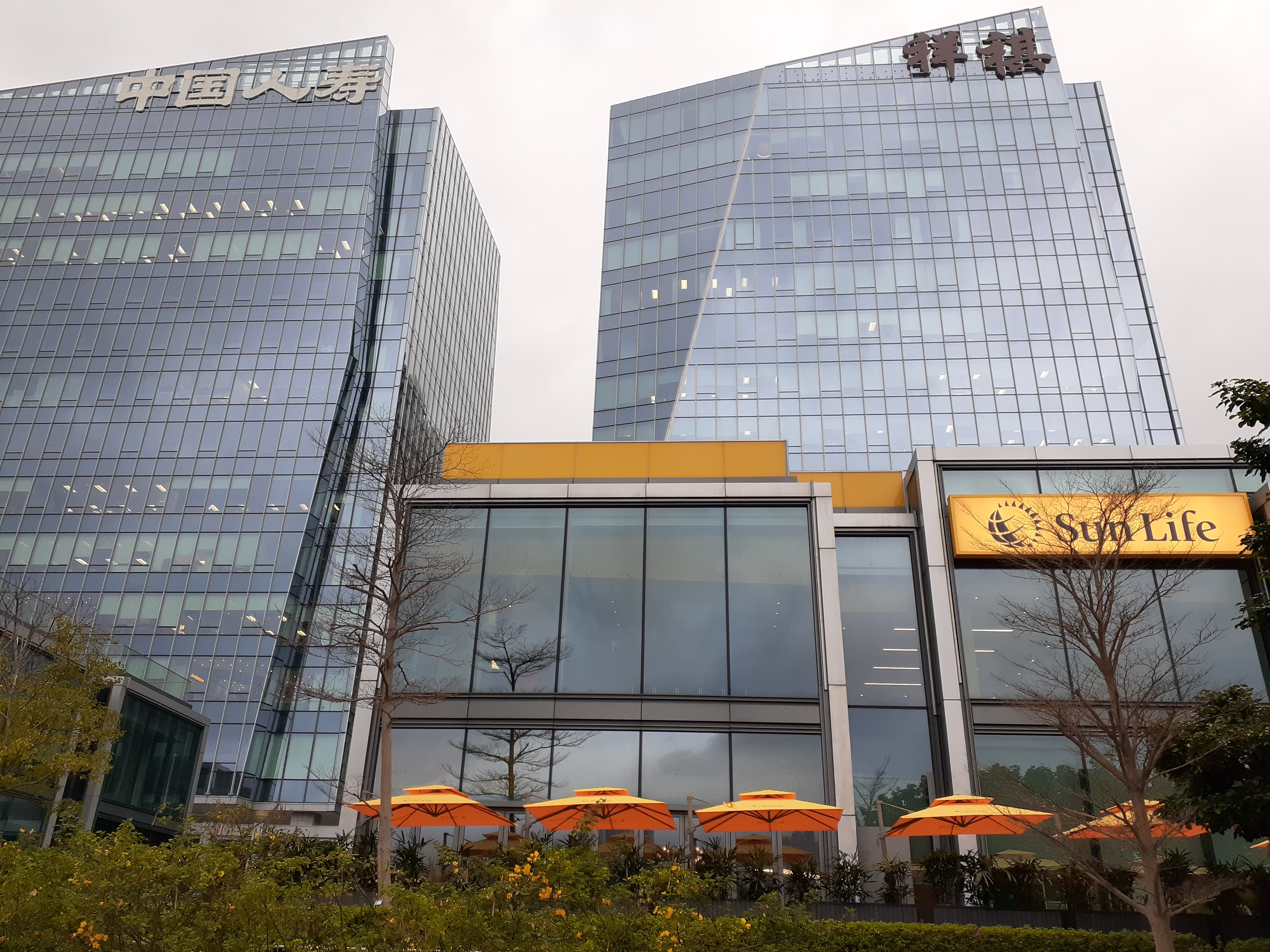 HK 尖沙咀海濱公園 Tsim Sha Tsui Promenade to 紅磡 Hung Hom Promrnade near Victoria Harbour in March 2020